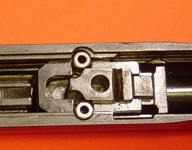 cz 52 during the beginning of recoil